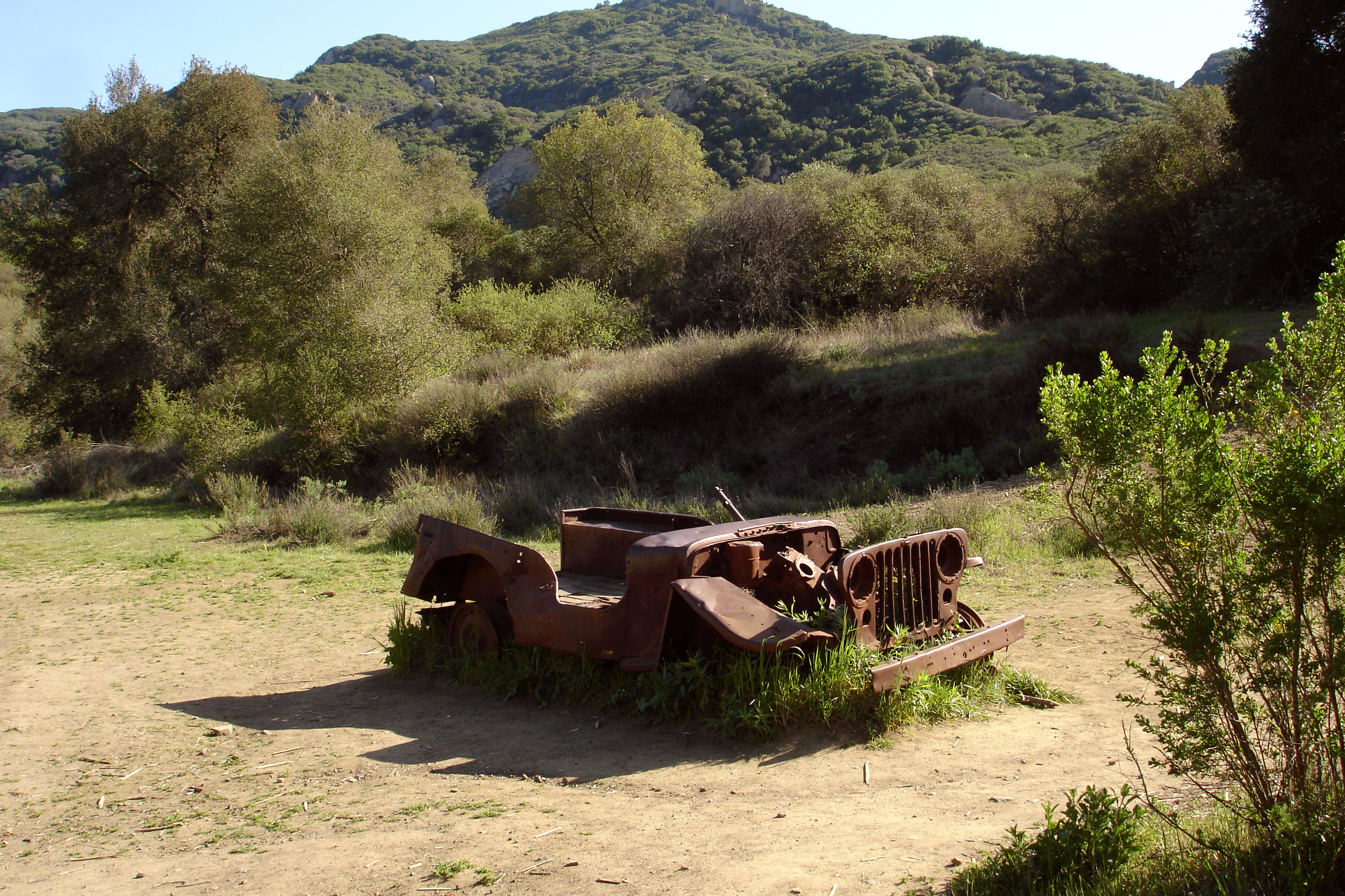 M*A*S*H site in Malibu Creek State Park.